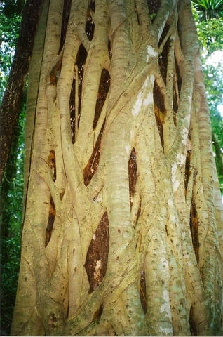 Ficus obliqua at Boorganna_Nature_Reserve